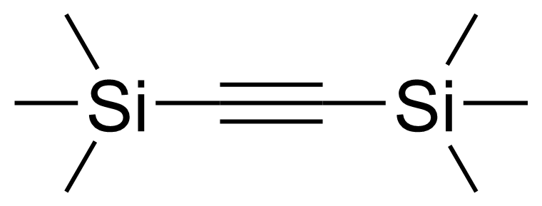 Skeletal structure of bis(trimethylsilyl)acetylene